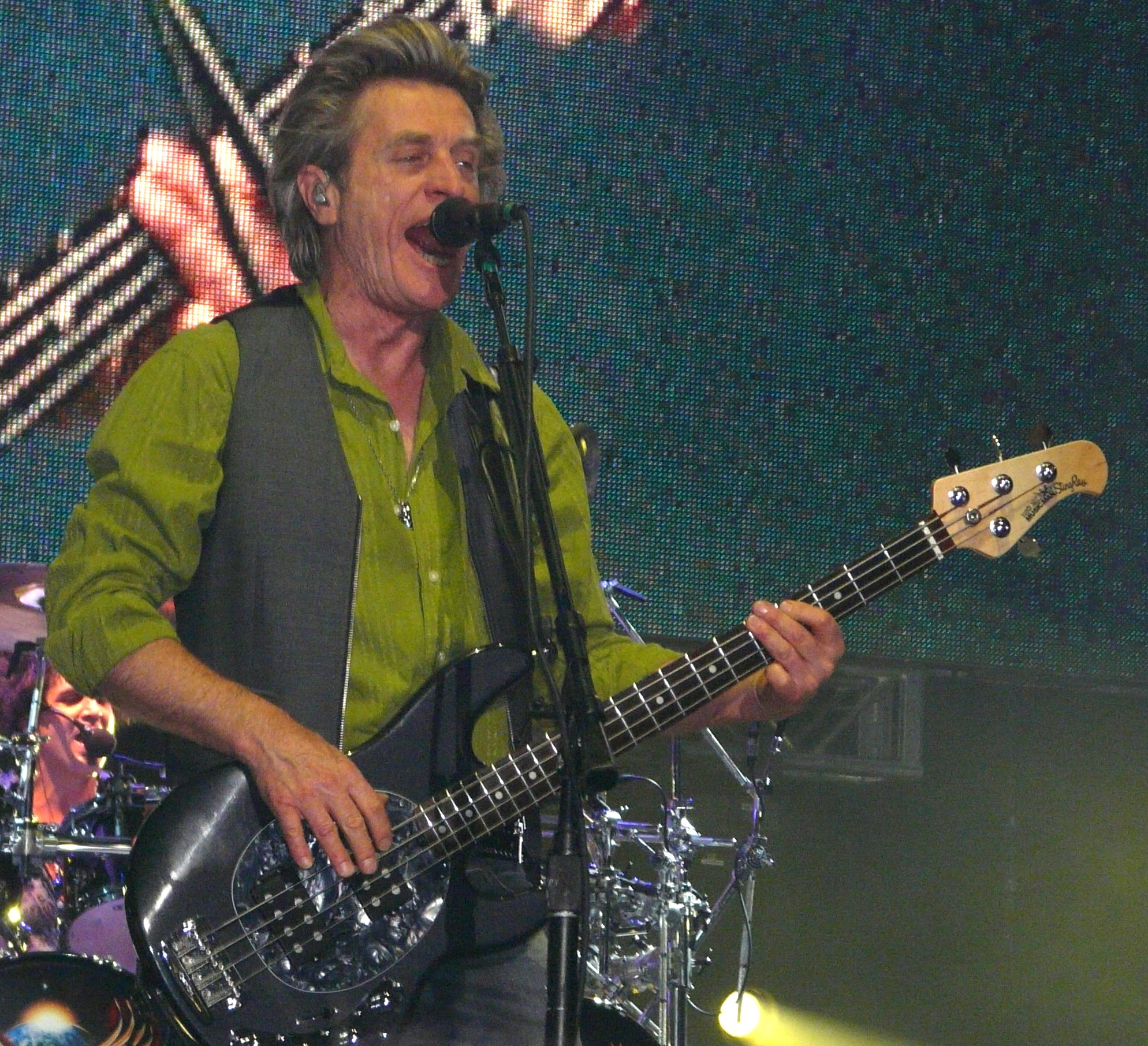 Ross Valory with Journey. Live in Minneapolis, MN on September 16, 2008. Photo by Matt Becker